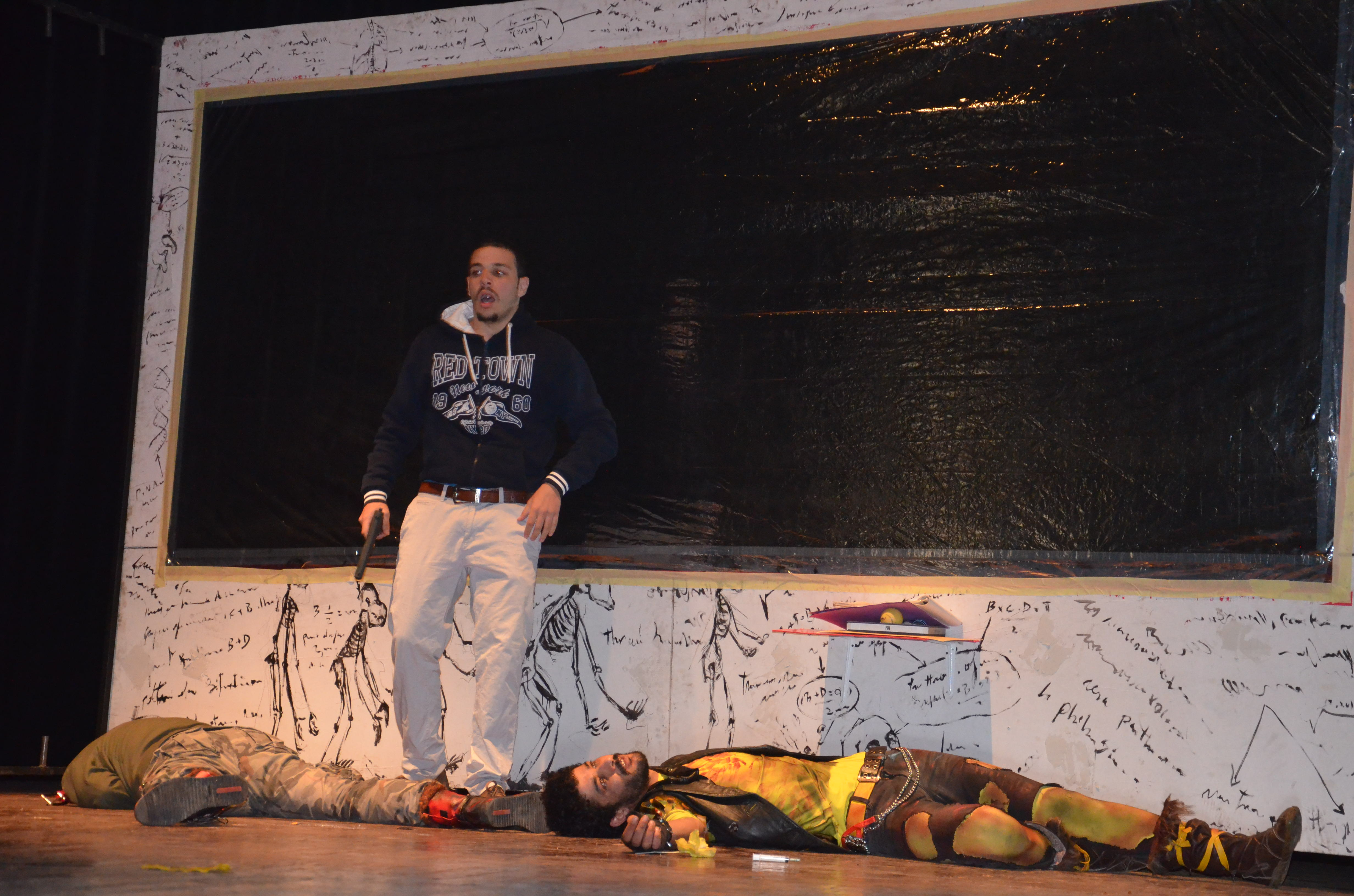 This is an image with the theme "Play" from: Algeria